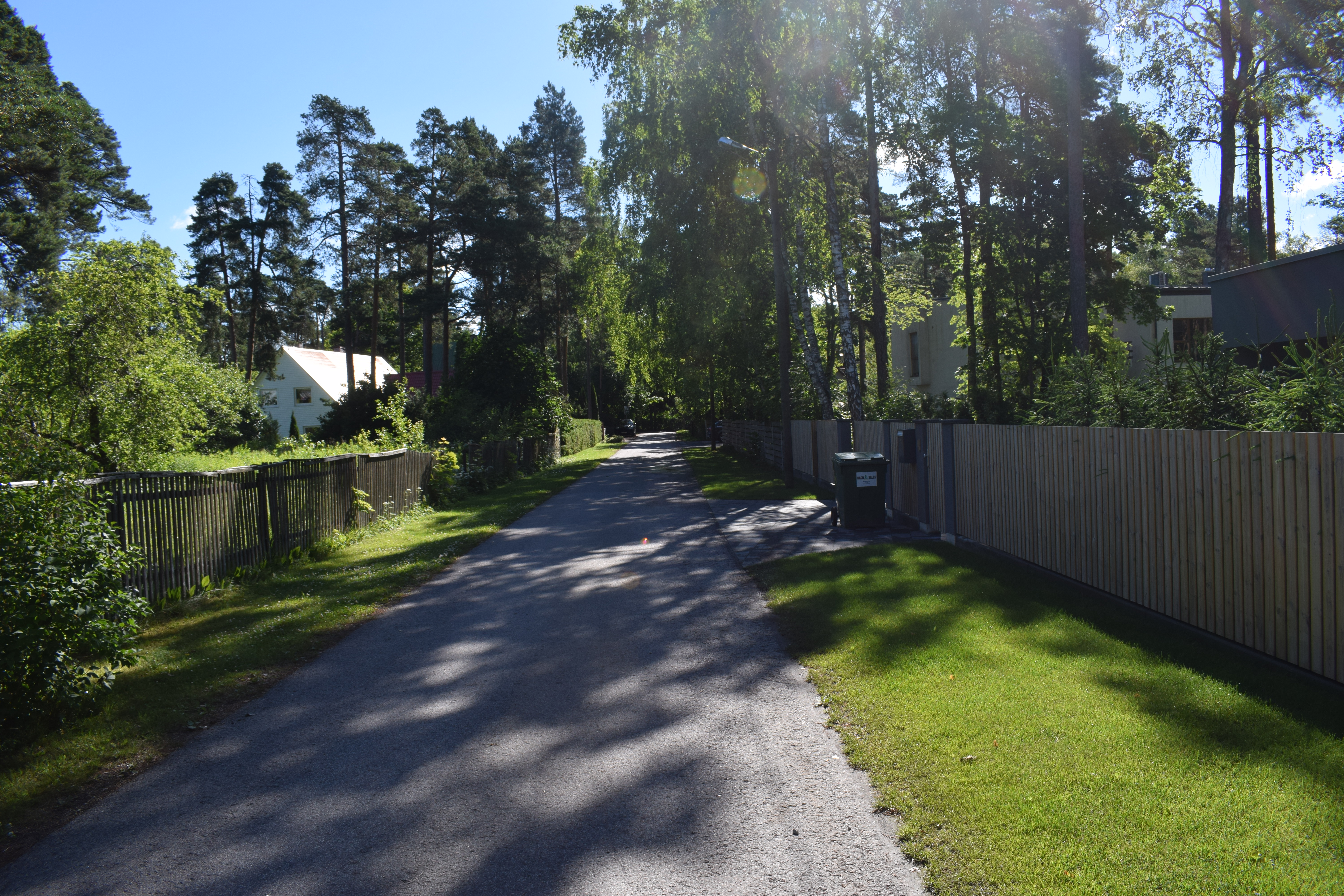 Raie tänav